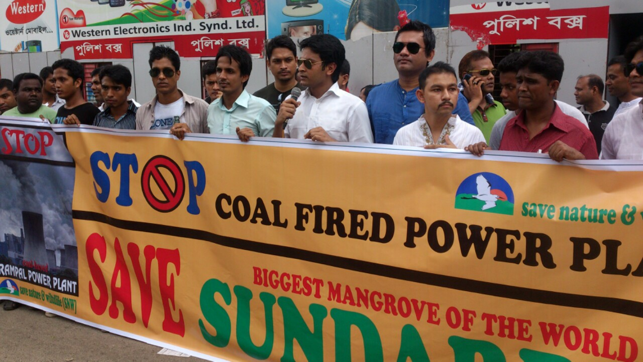 Mithun_Roy_Chowdhury_delivering speeches at National Press Club. Dhaka.